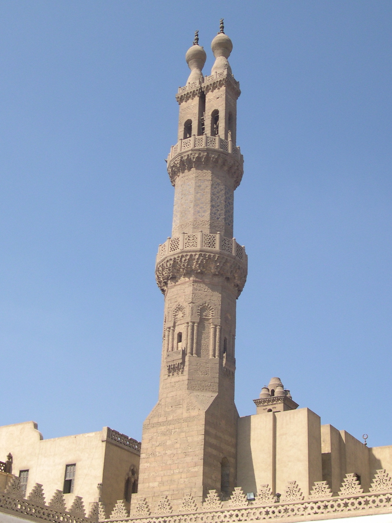 Double final minaret of Qansah al-Ghuri at al-Azhar mosque